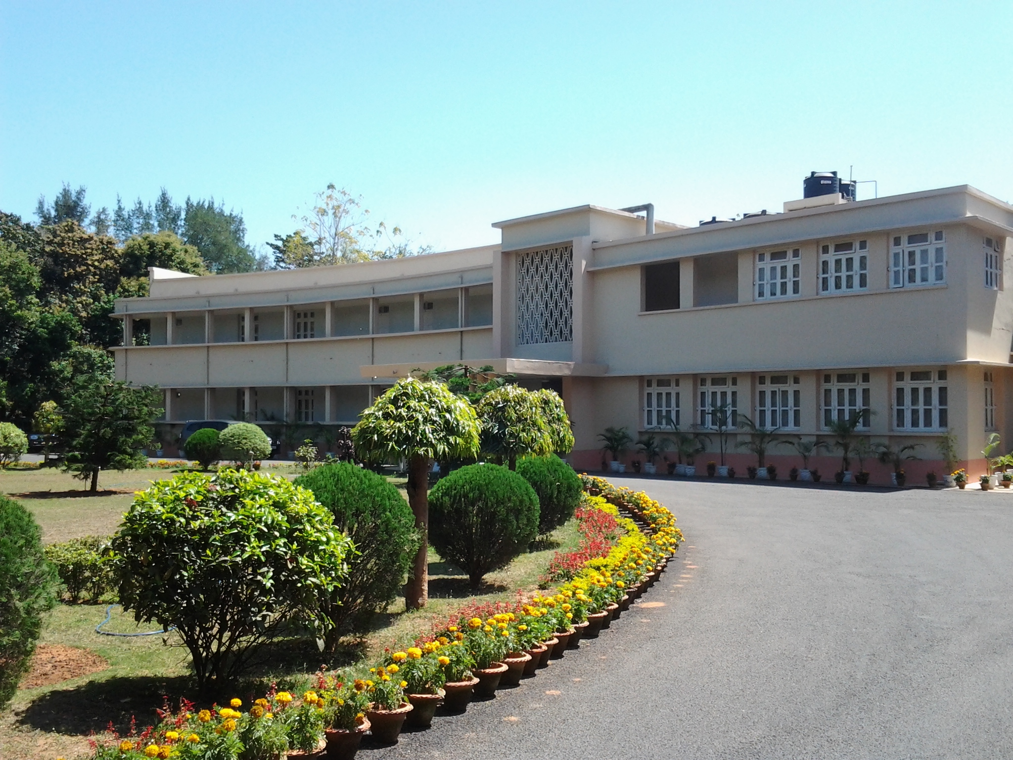 The Institute Guest House(South Block)